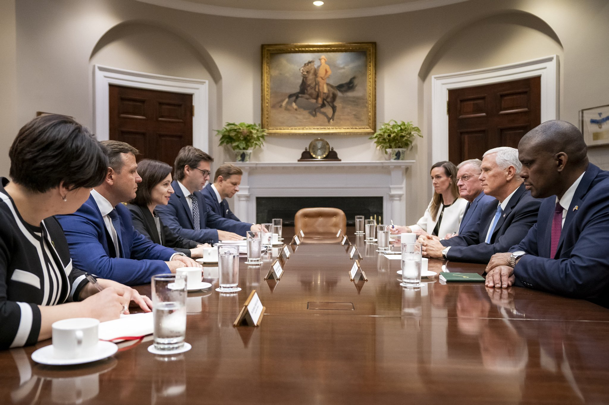 Proud to welcome the Prime Minister of Moldova Maia Sandu to the White House today! The US stands with the Moldovan people as they work to build a more secure & prosperous future!